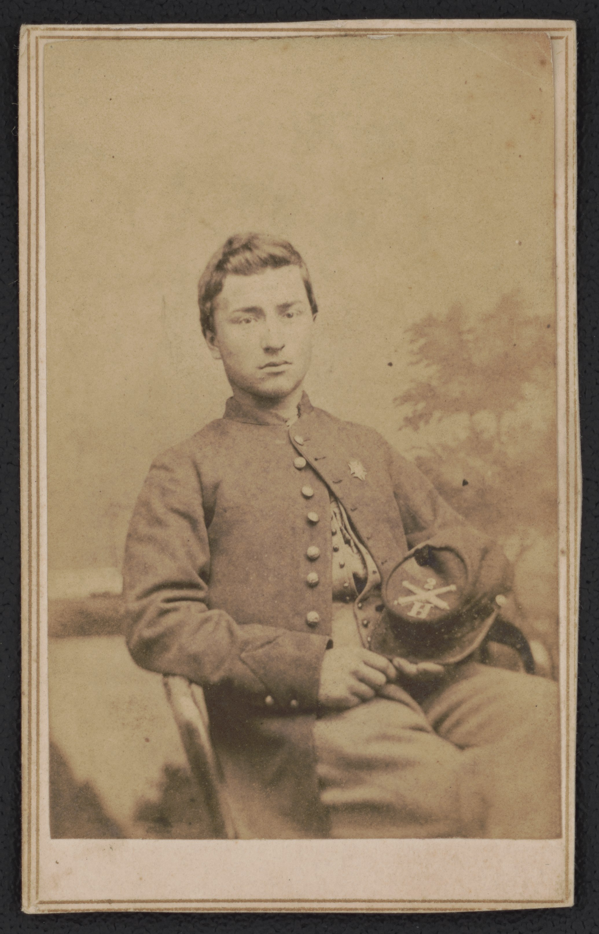 Title: Private William Phelps McNeil of Co. H, 2nd New York Heavy Artillery Regiment, in uniform, in front of painted backdrop] / Palmer's Gallery, Mason's Island, D.C Abstract/medium: 1 photograph : albumen print on card mount ; mount 10 x 6 cm (carte de visite format)